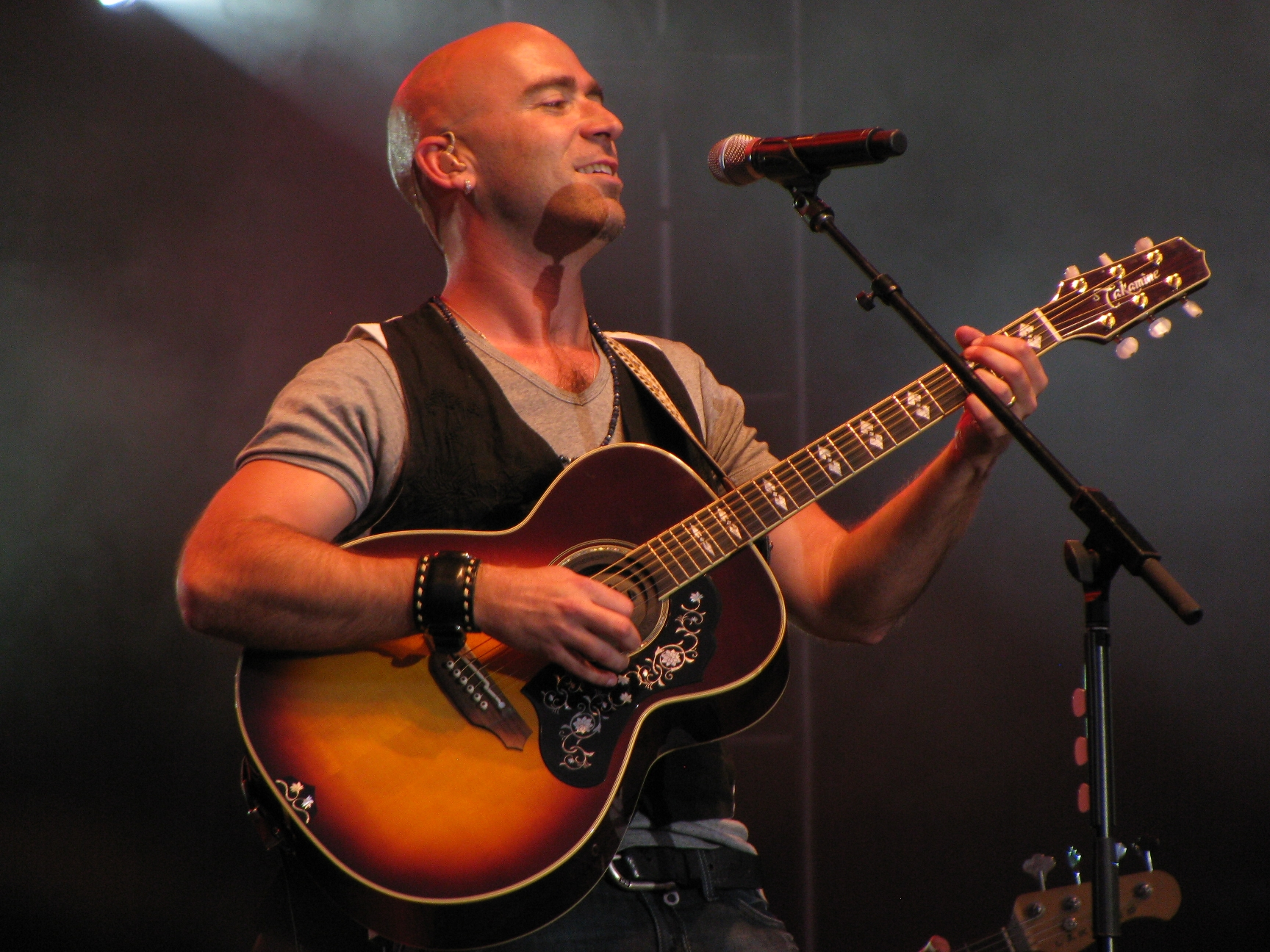 Ed Kowalczyk performing with Live at Bluesfest, Ottawa, ON in 2009.